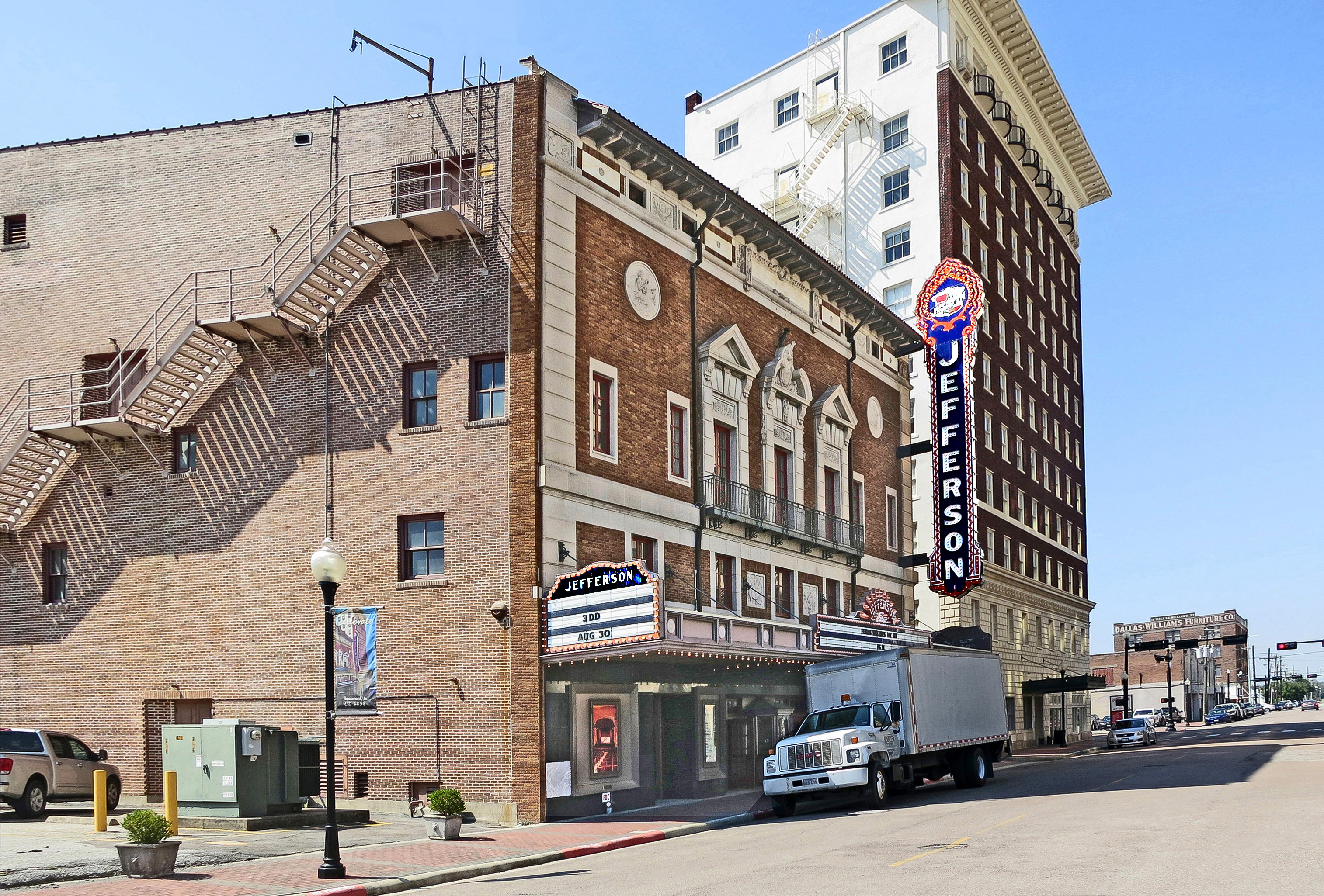 Built in 1927 by the Jefferson Amusement Company, this theatre quickly became a landmark in downtown Beaumont. Emile Weil, Inc., a New Orleans architectural firm, designed the structure. The interior is a showcase of fine materials and workmanship, with marble staircases and Spanish-style decoration. In addition to motion pictures, the Jefferson Theatre featured dramatic stage productions, vaudeville shows, and other live entertainment. Incise in base